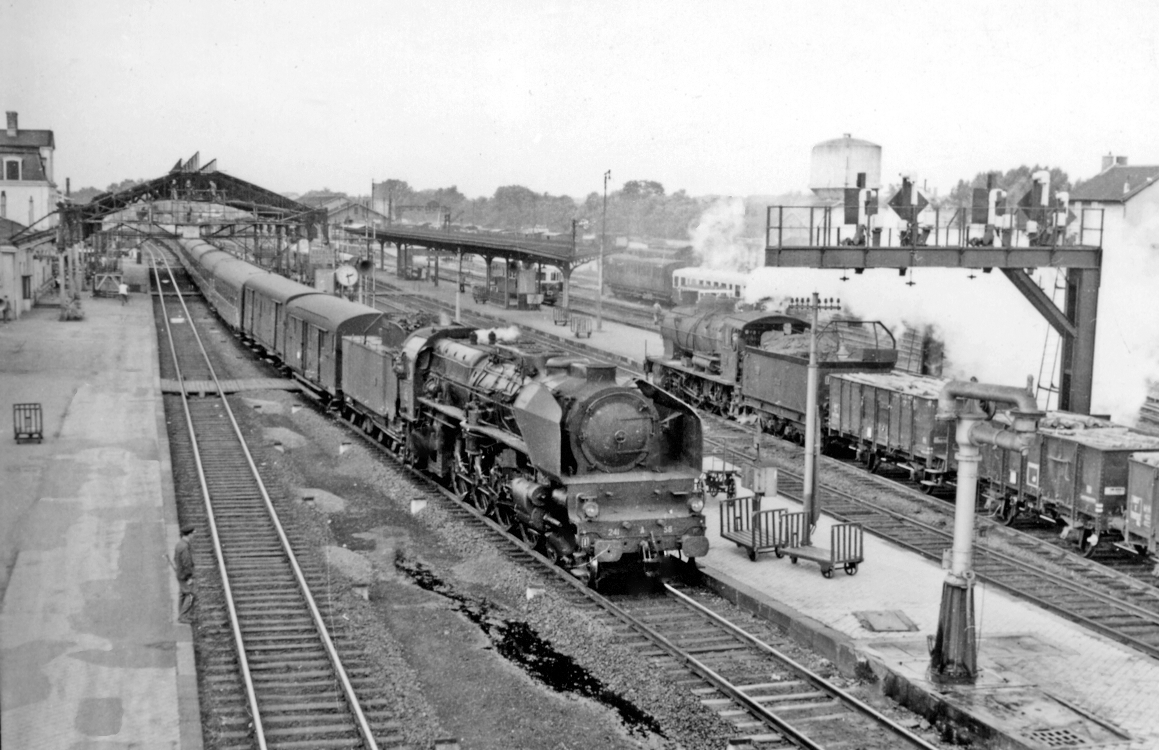 Chalons-sur-Marne (Marne), a busy station 1958: An SNCF Est 4-8-2 is eastbound on an express, while a 2-8-0 passes on a freight from Troyes.